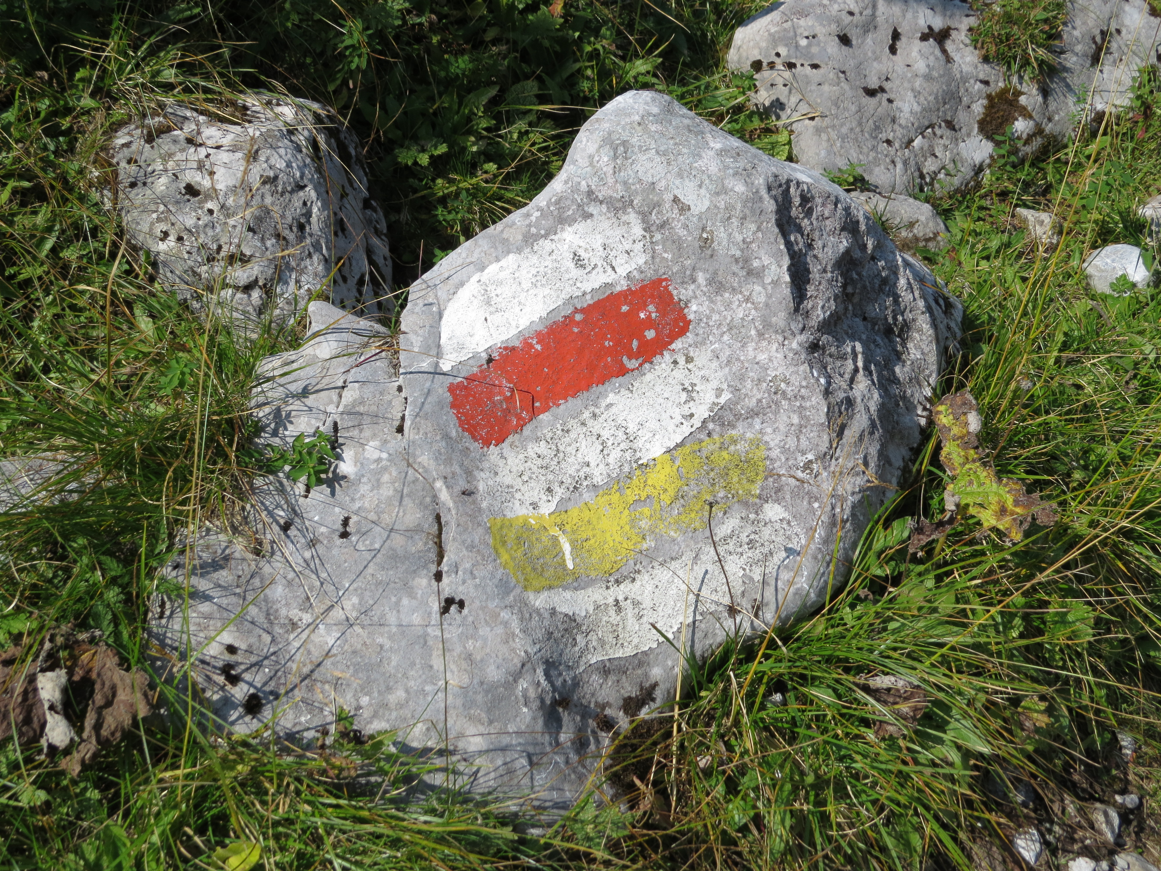 Marker stone at Rax, Austria